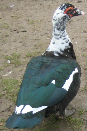 Feral Muscovy Ducks in a park at St Albans, UK.